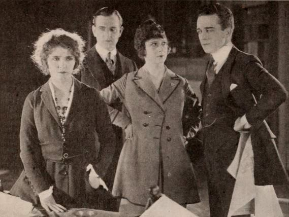 Still from the American film The Spite Bride (1919) with Olive Thomas, Robert Ellis, Claire Du Brey, and Jack Mulhall, on page 42 of the August 16, 1919 Exhibitors Herald.